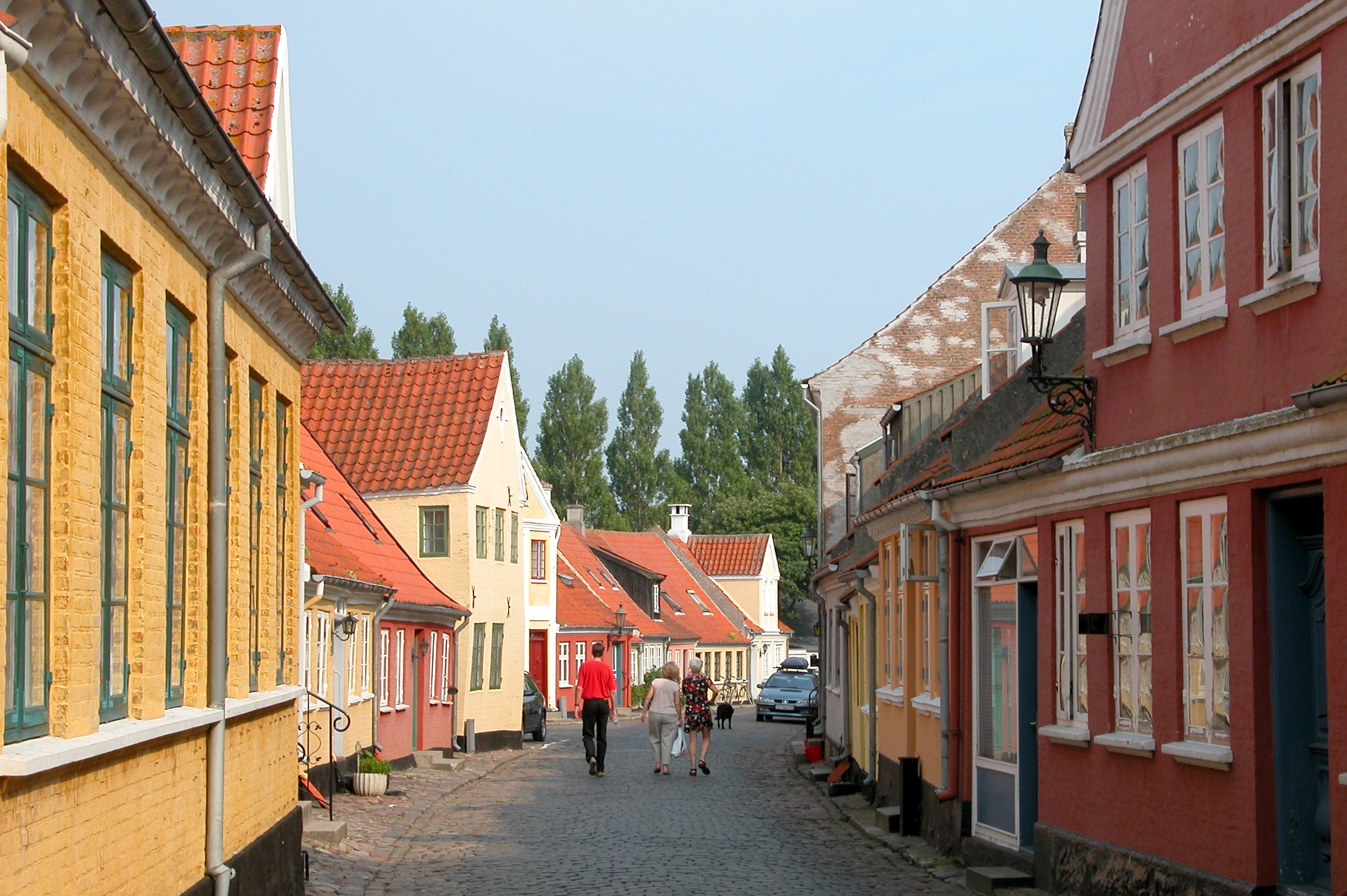 Ærøskøbing, Ærø, Denmark